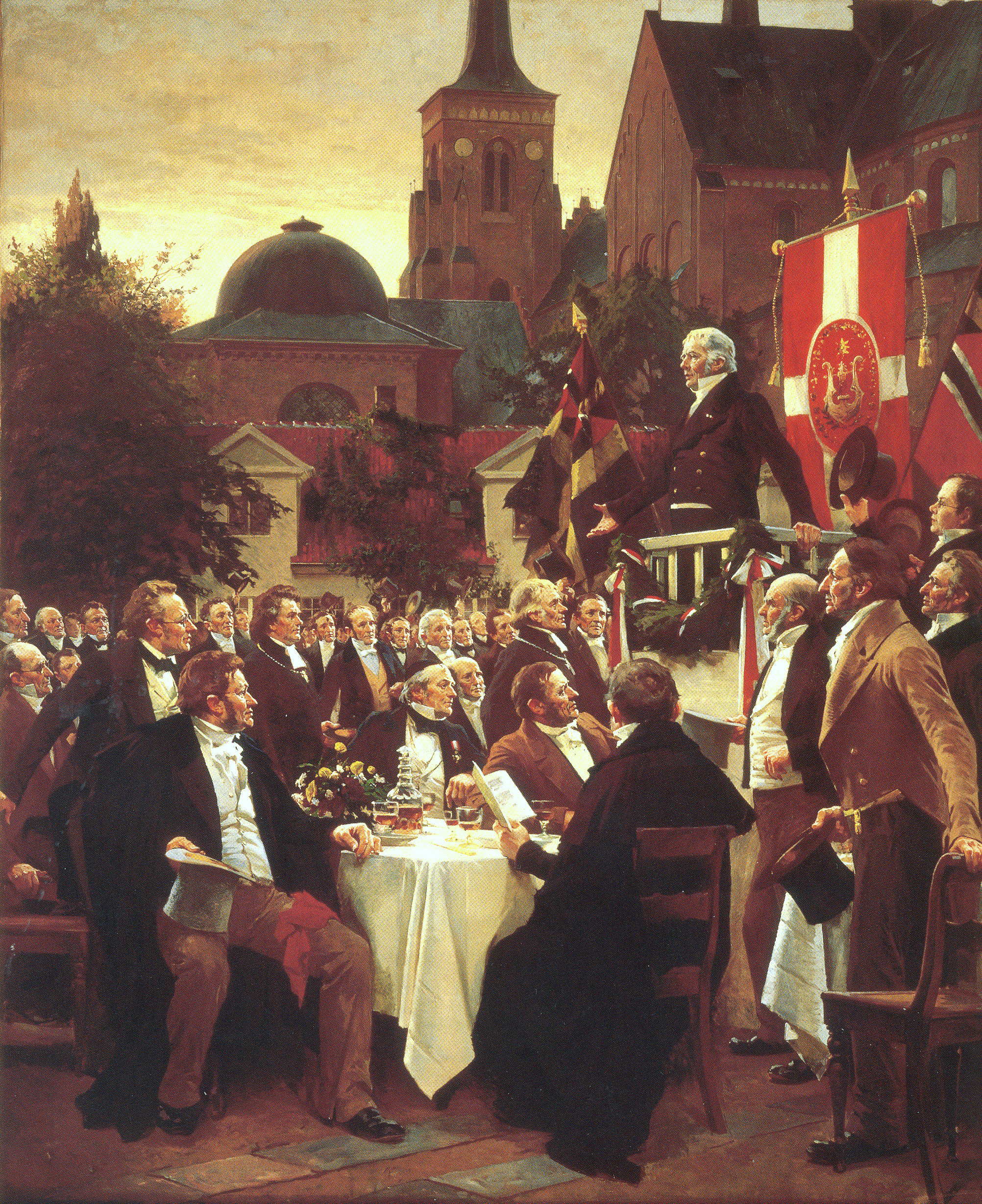 painting in the aula of the University of Copemhagen